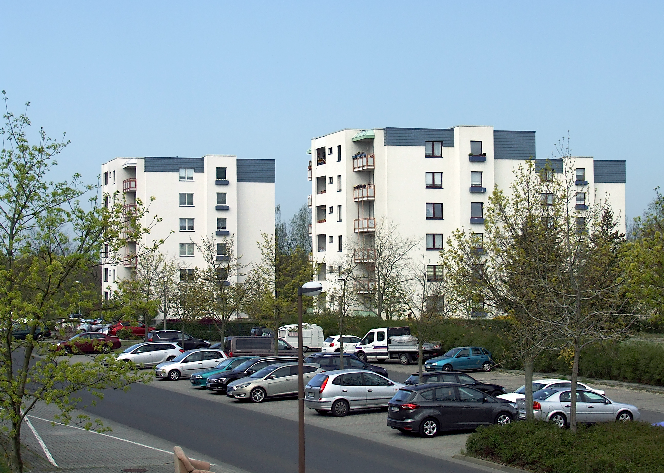 Refurbished residential Plattenbauten Am Lug 16, 17 and 18 in Cottbus-Schmellwitz.